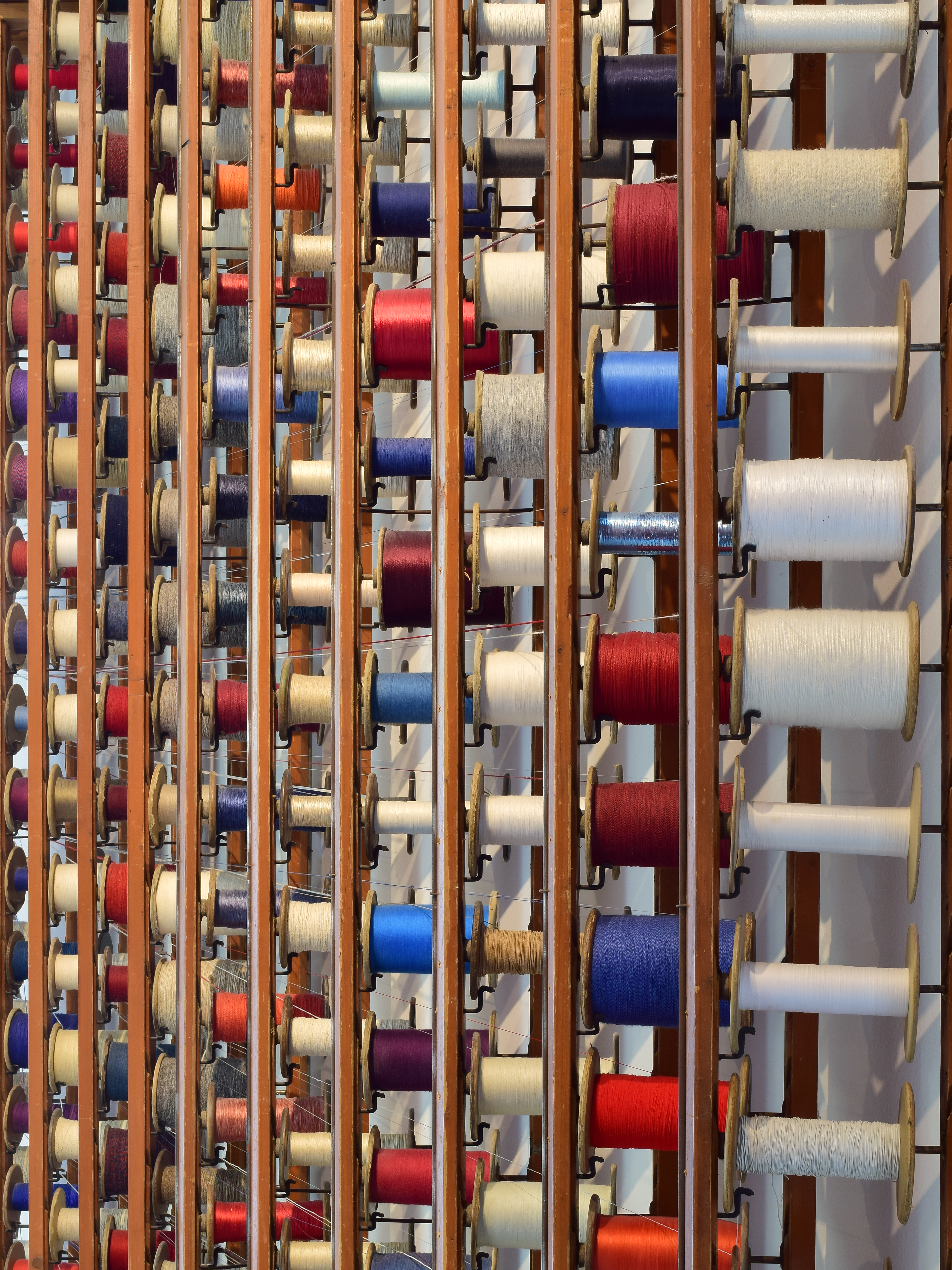 This shot from the Textile Center in Haslach an der Mühl shows different rolls of yarn.